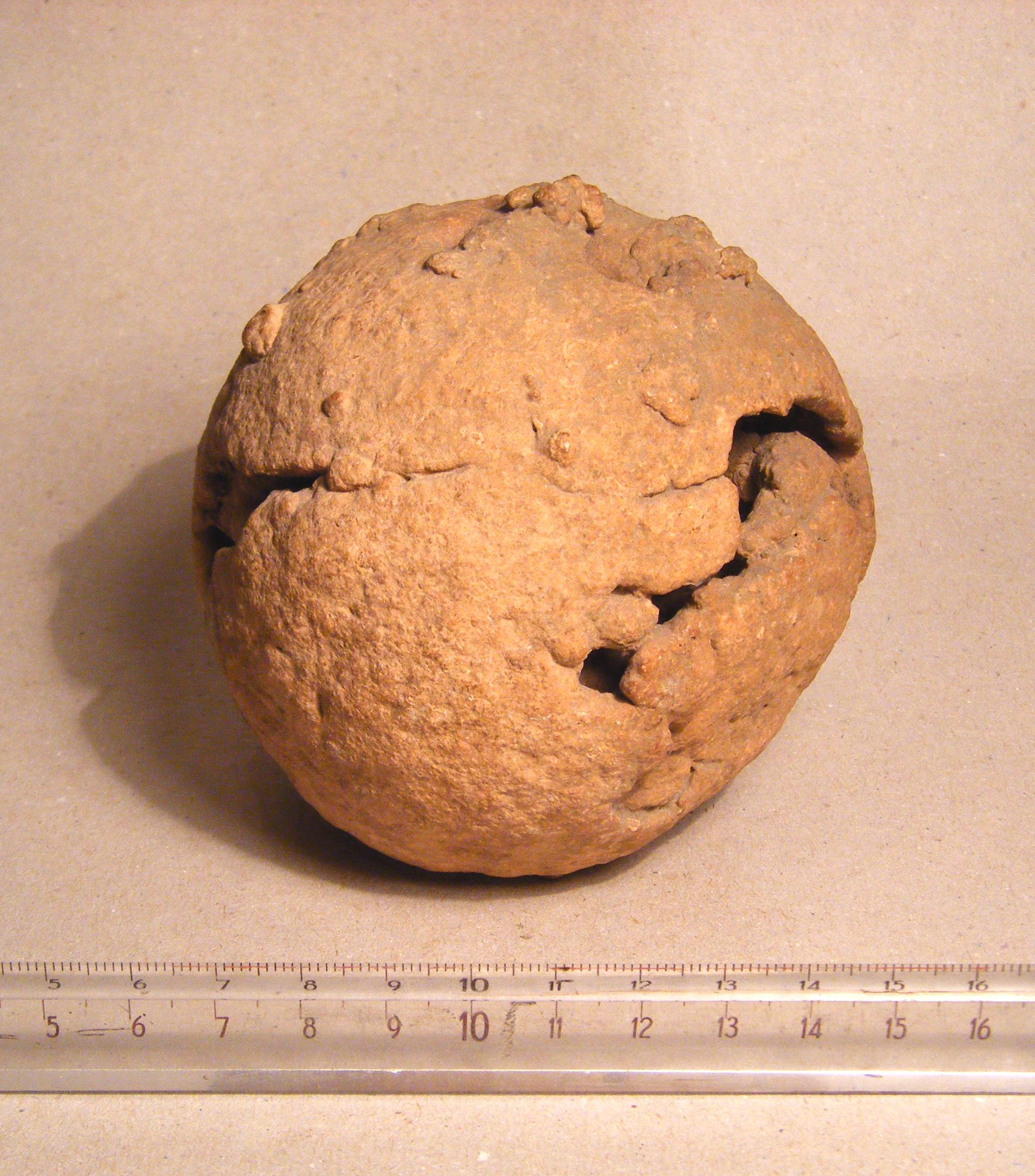 Dinosaur egg